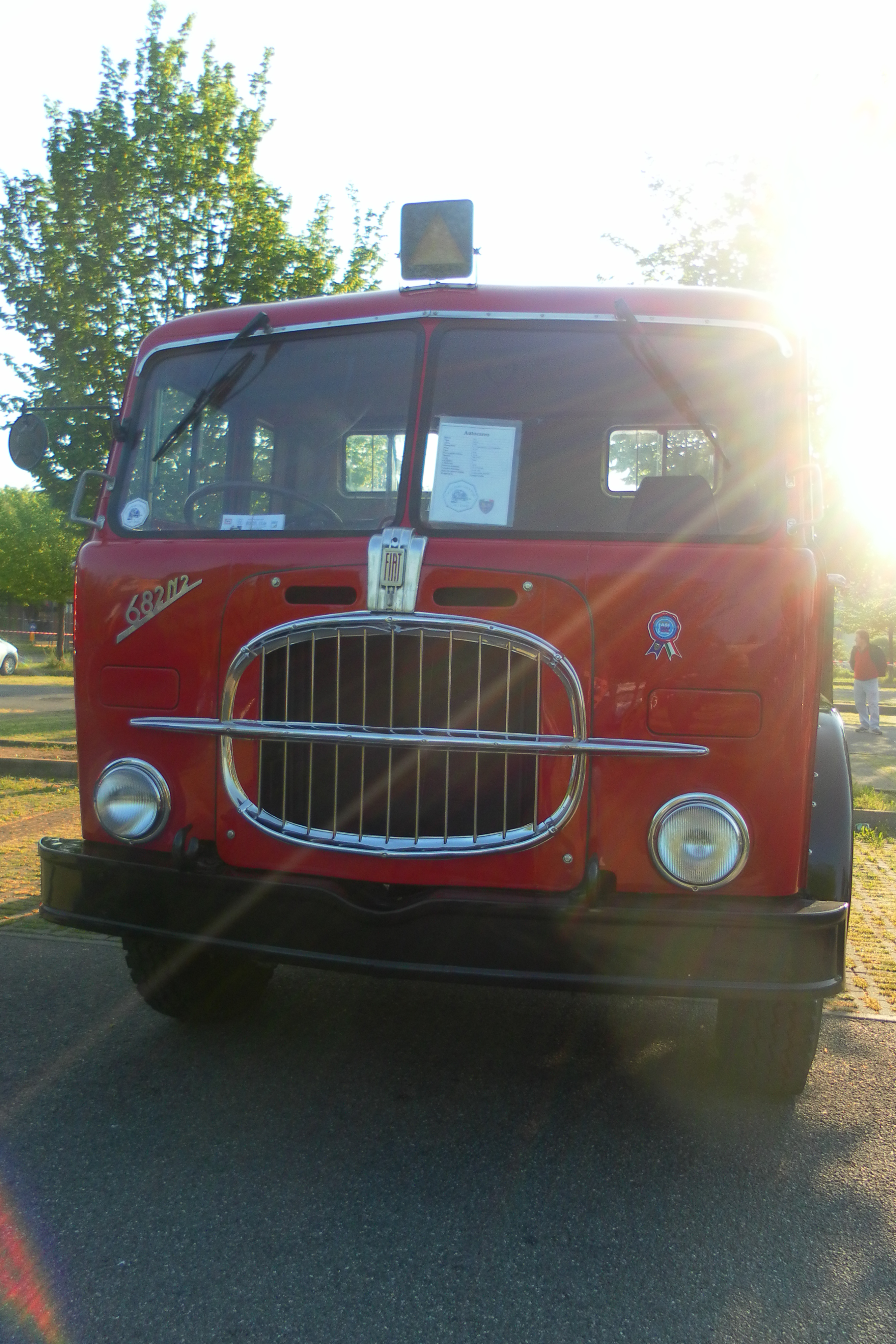 Fiat 682